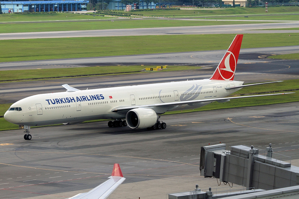 Boeing 777 of Turkish Airlines, TC-JJG